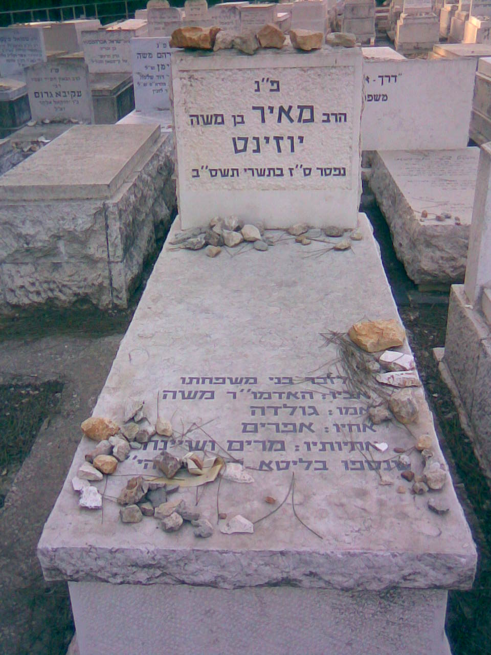 Meyer Juzint - Headstone1.jpg